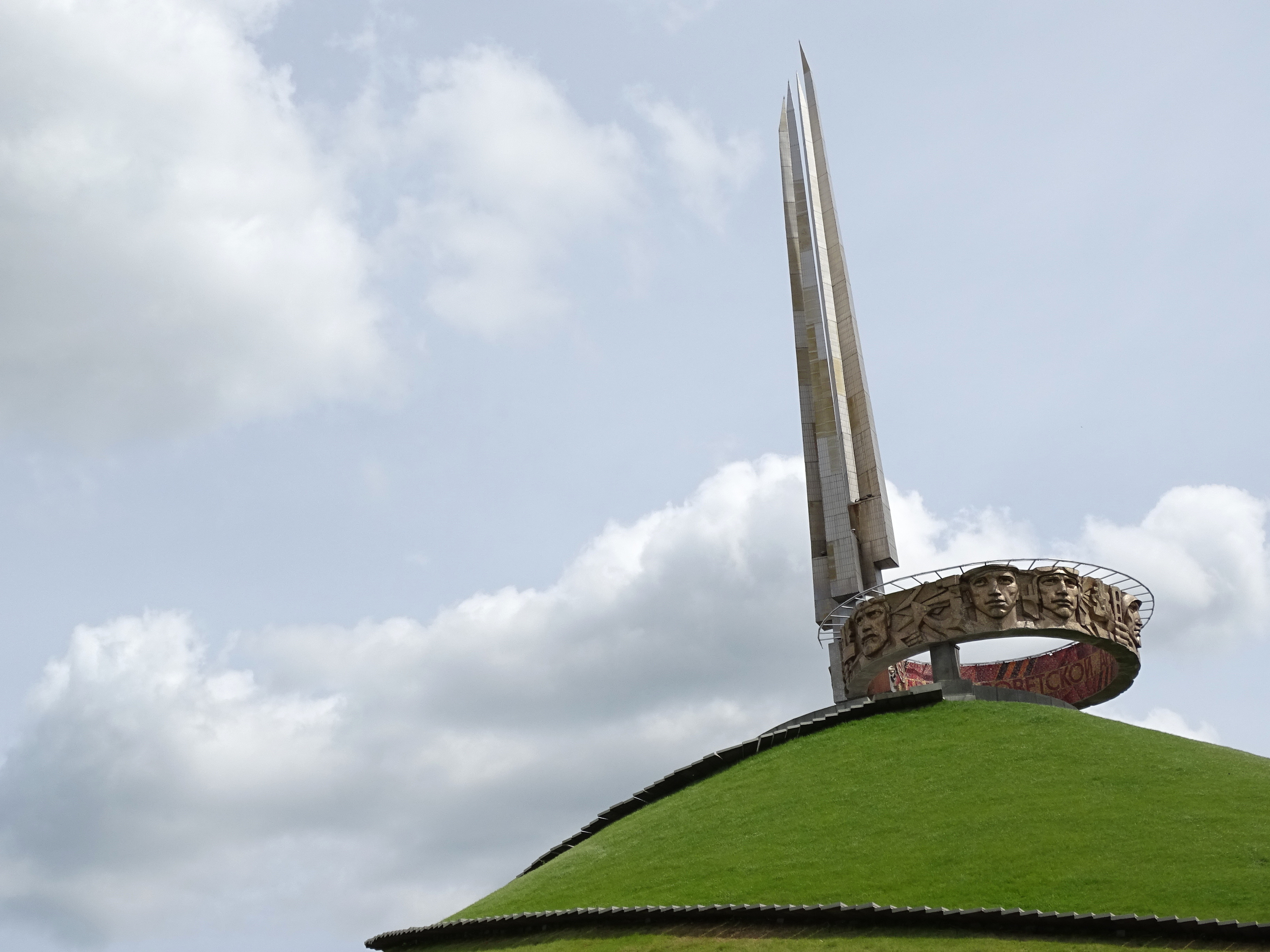 Mount of Glory - World War Two Memorial - Near Minsk - Belarus - 01